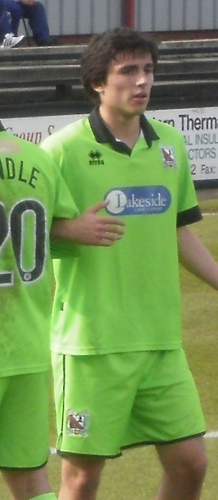 John McReady playing for Darlington against Forest Green Rovers at The New Lawn, Nailsworth on 21 April 2012